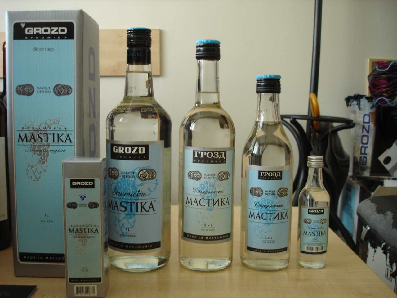 Mastika spirit drink from Strumica, Macedonia